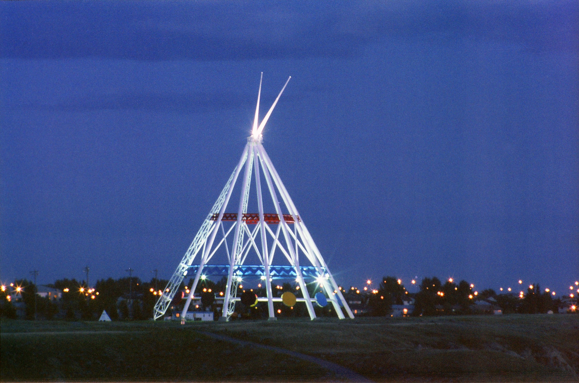 Giant sculpted teepee at the entrance to Medicine Hat, Alberta, Canada